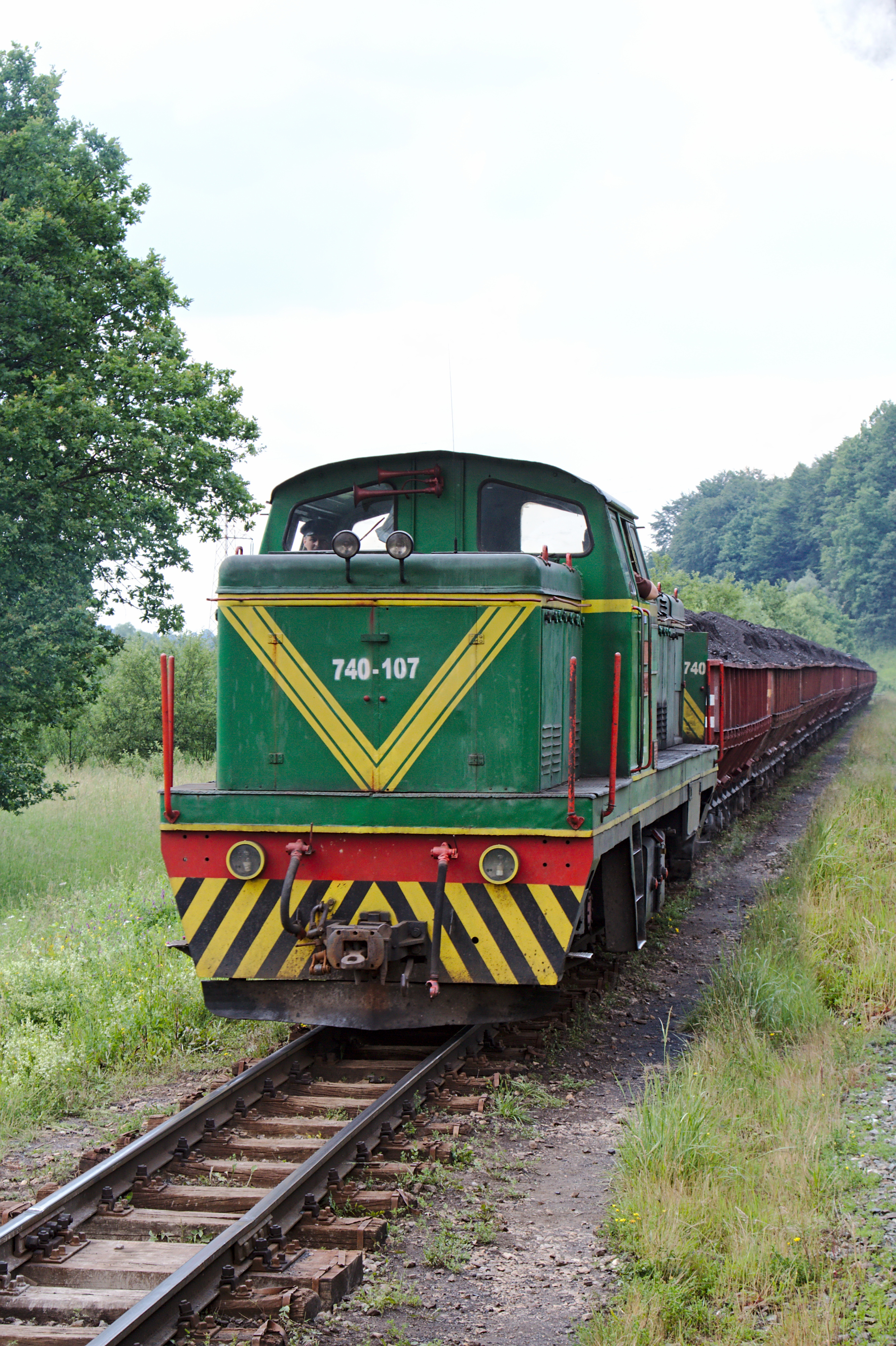 740-007 with a loaded coal train heading for the coal washing plant at Oskova.